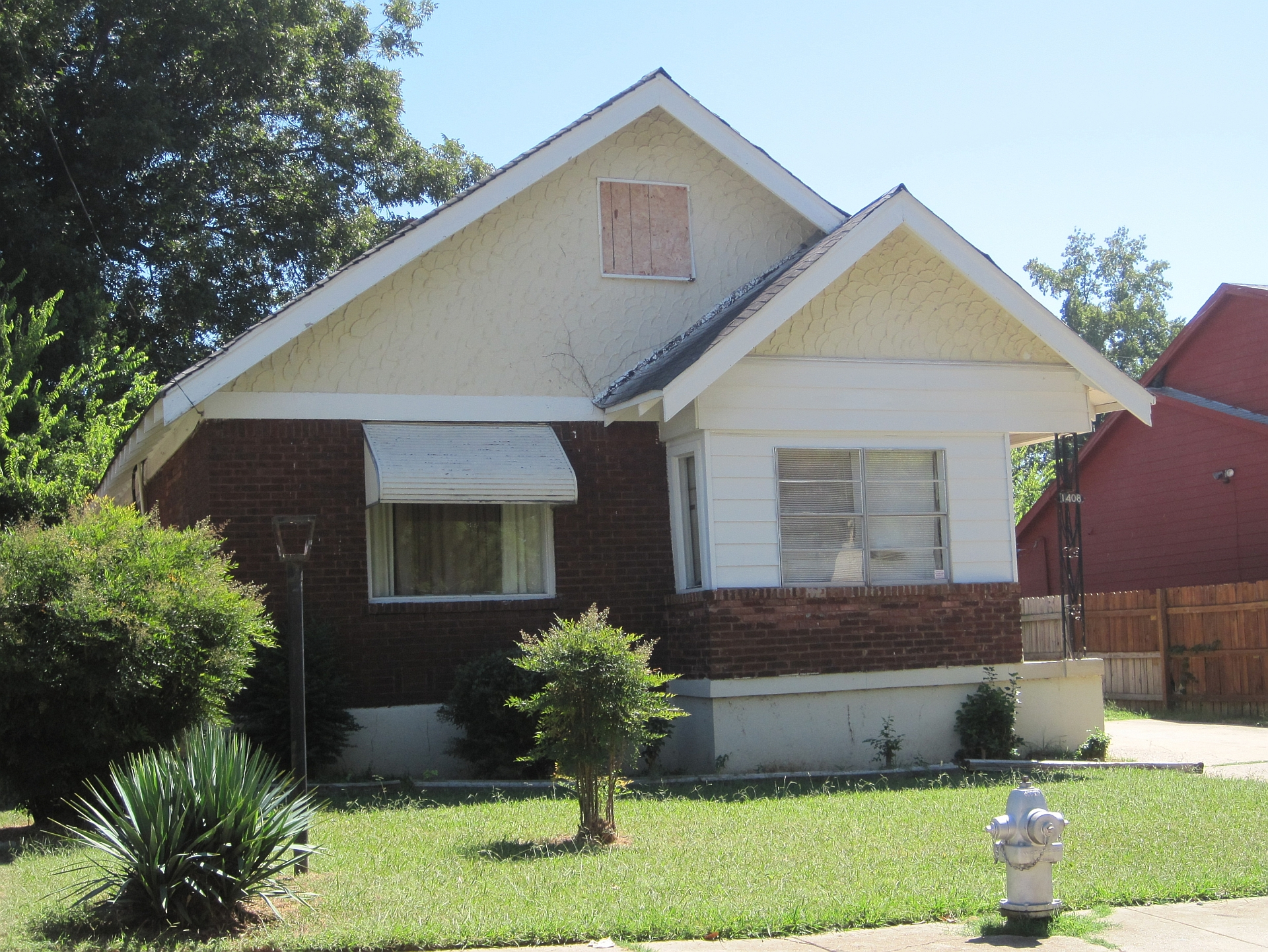 Machine Gun Kelly's (George Kelly Barnes) hideout at 1408 Rayner Street in Memphis, Tennessee. He was arrested there on September 23, 1933.